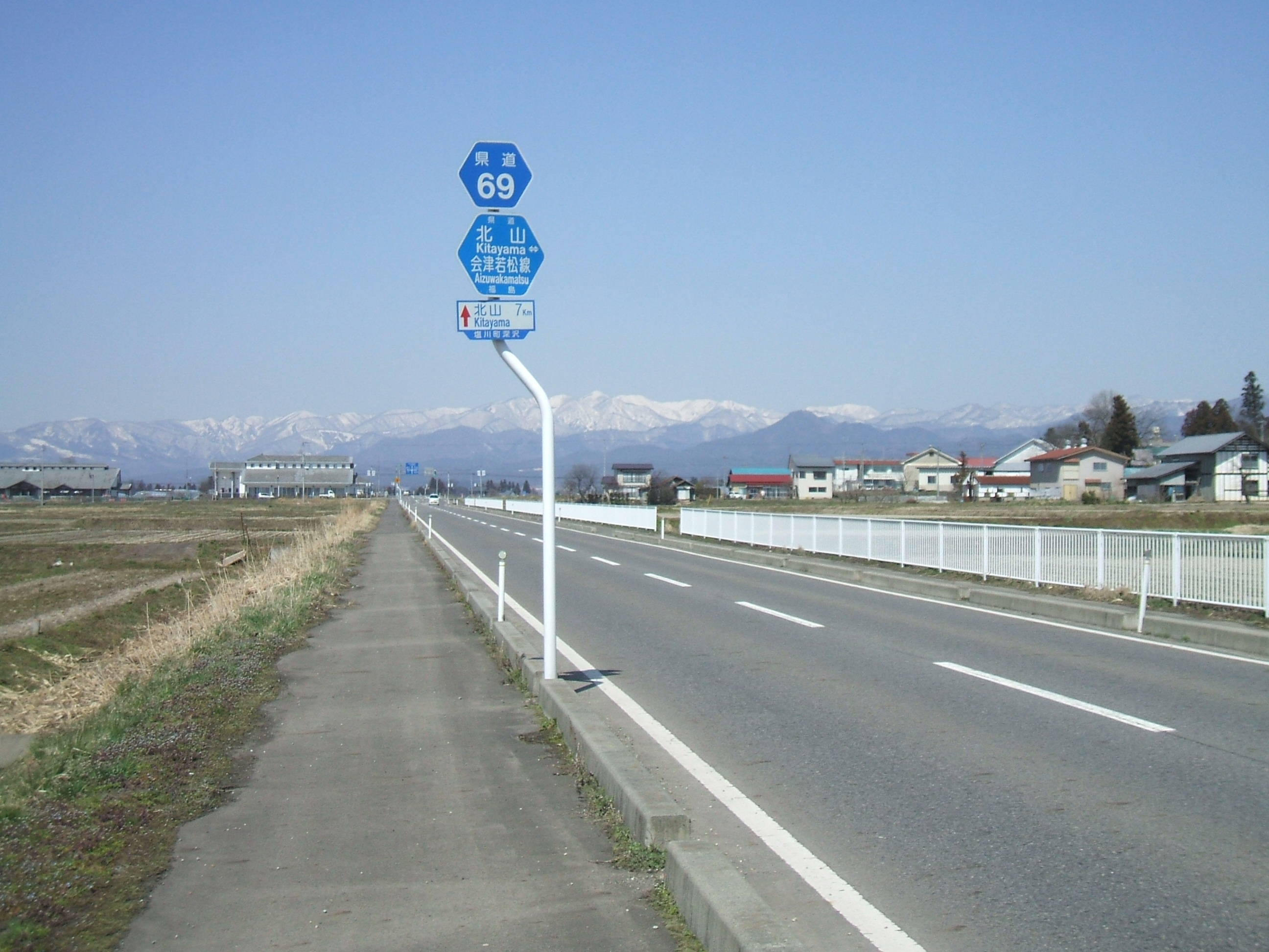 This is a landscape of Fukushima Prefectural Road Route 69 at Shiokawa, Kitakata, Fukushima.